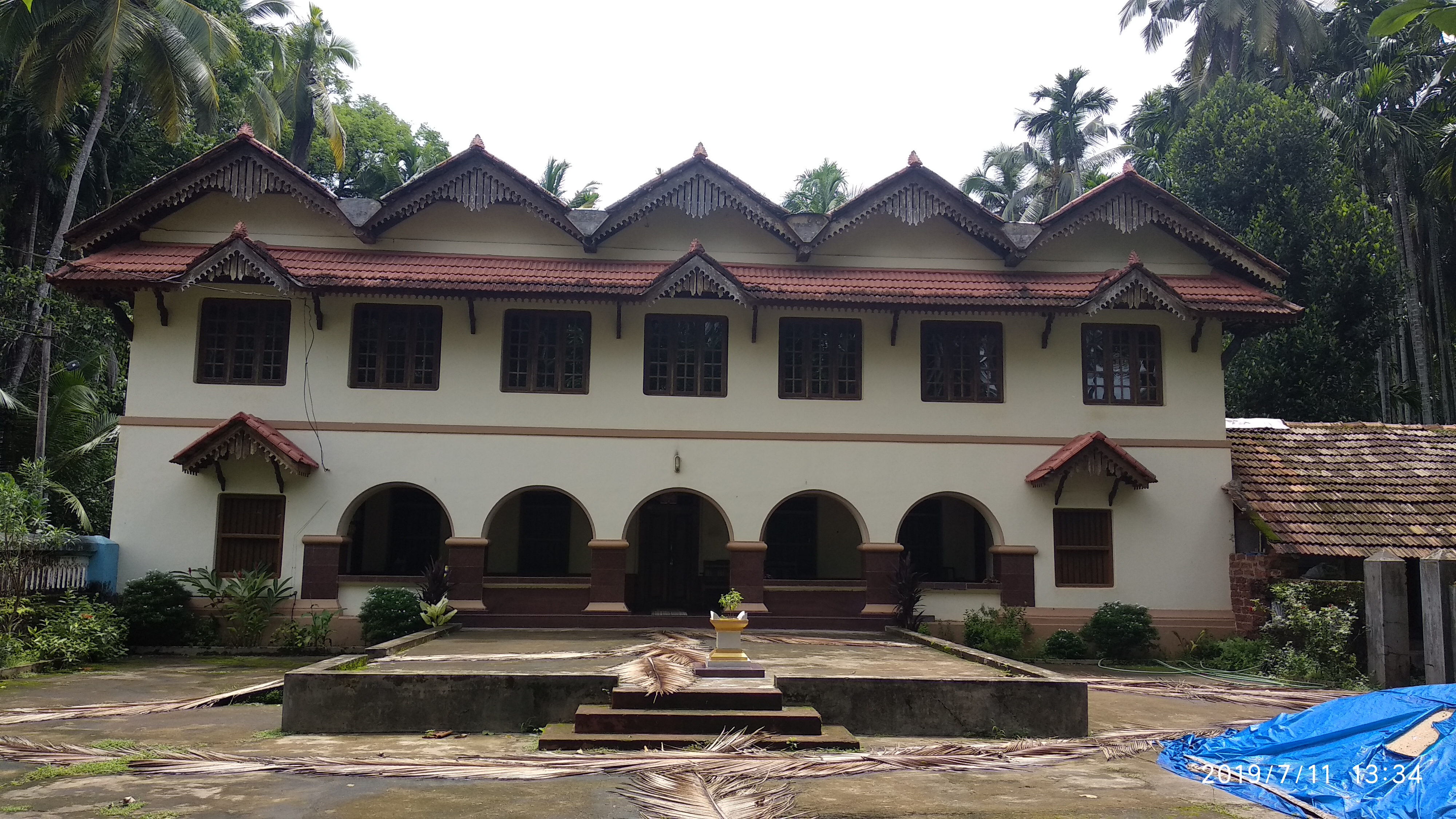 Maippady palace at Maippady, Kasaragod